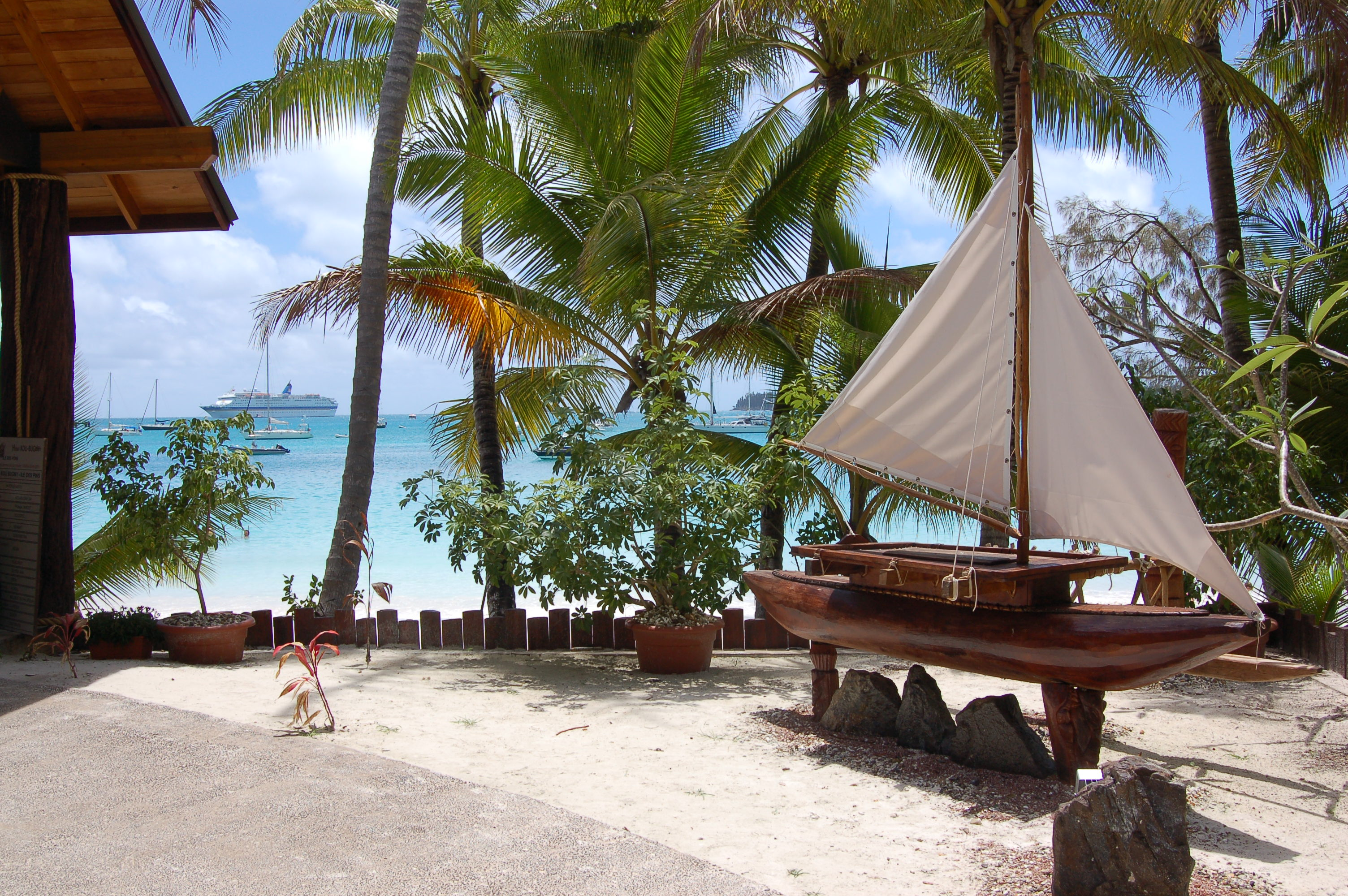 View of the entrance to the Hotel Kou-Bugny's beachfront bar and restaurant facing Kuto Bay, on the Isle of Pines, New Caledonia. The cruise ship in the background is the Pacific Sun.